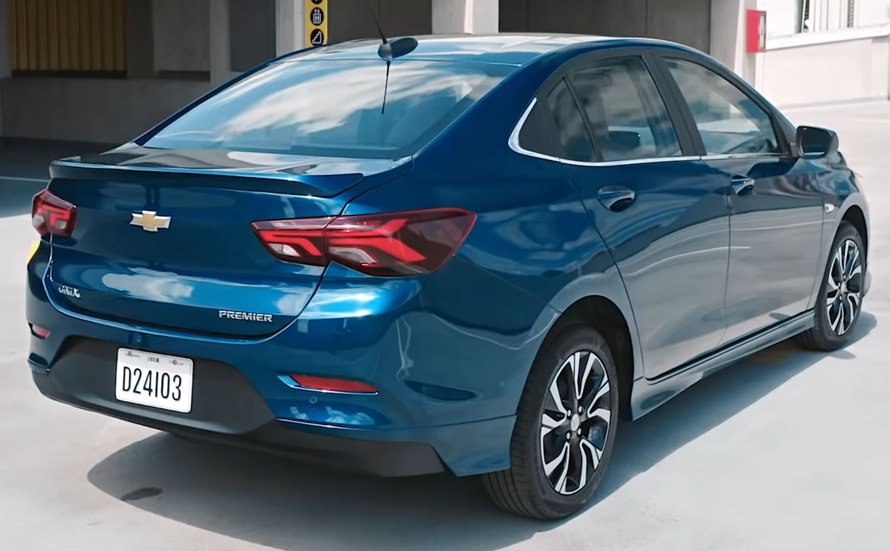 Chevrolet Onix (second generation, rear view)